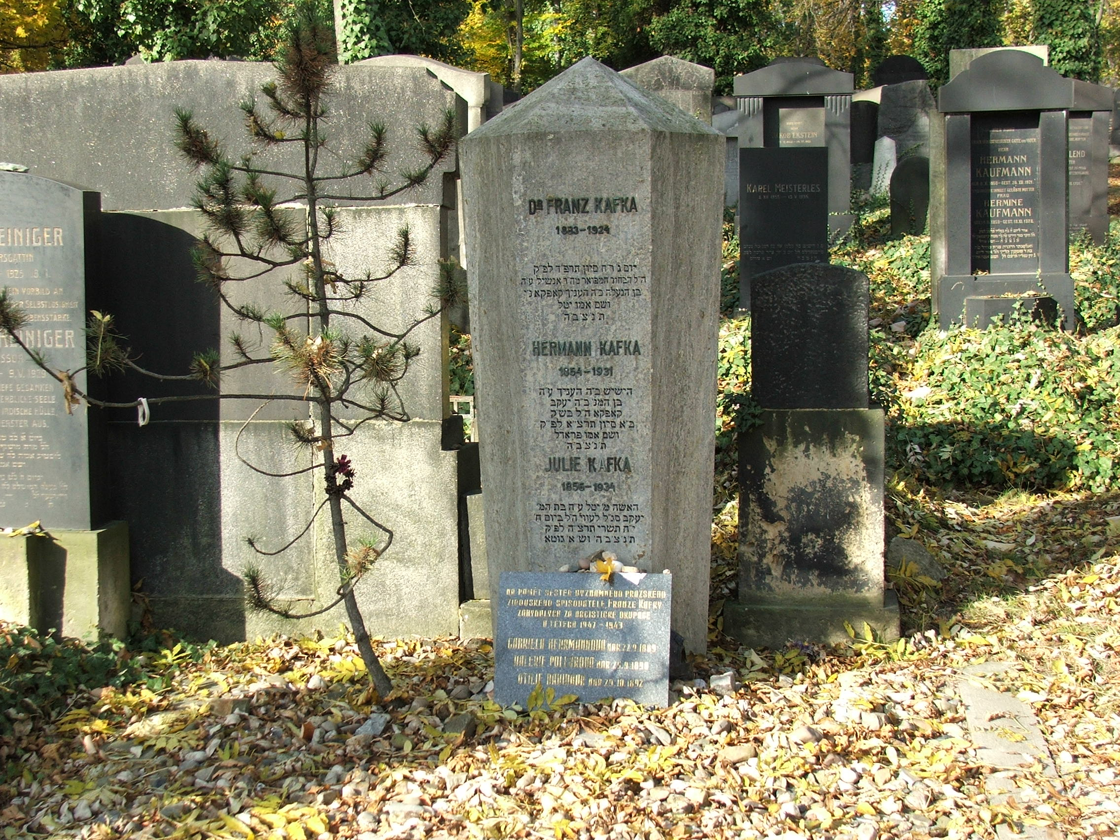 Jewish cemetery in Prague - Strašnice - grave of Franz Kafka. Location: Section 21 of New Jewish Cemetery, Izraelská street (close to the Želivského metro station), Prague, Czechia